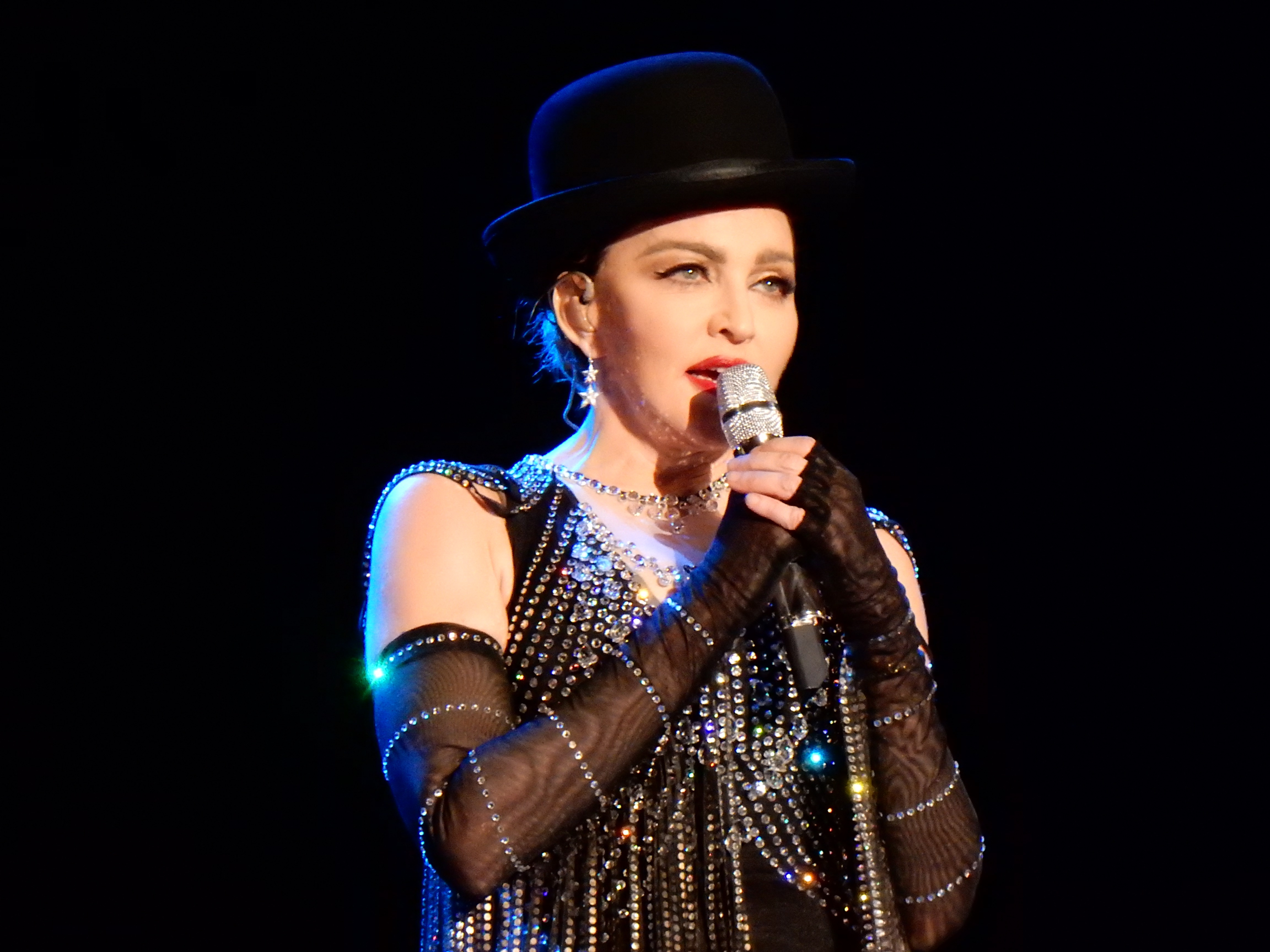 Rebel Heart tour 2016 - Melbourne 1